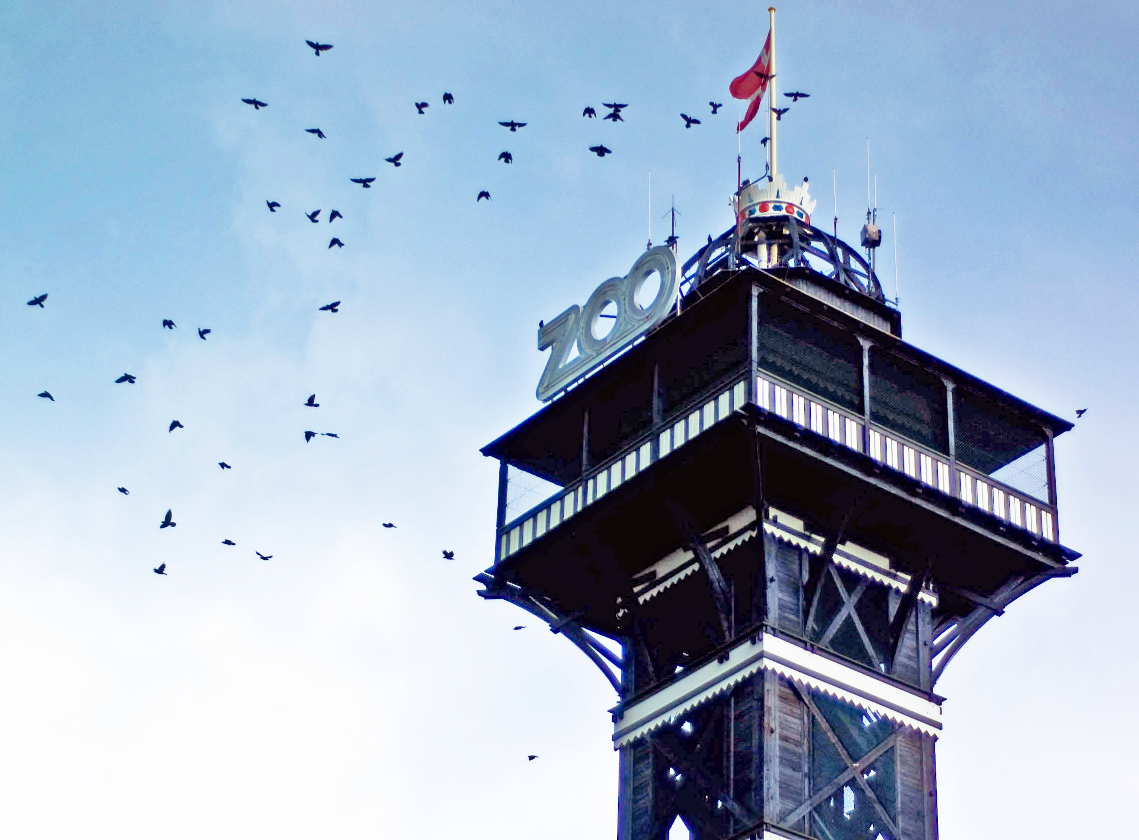 Copenhagen Zoo Tower